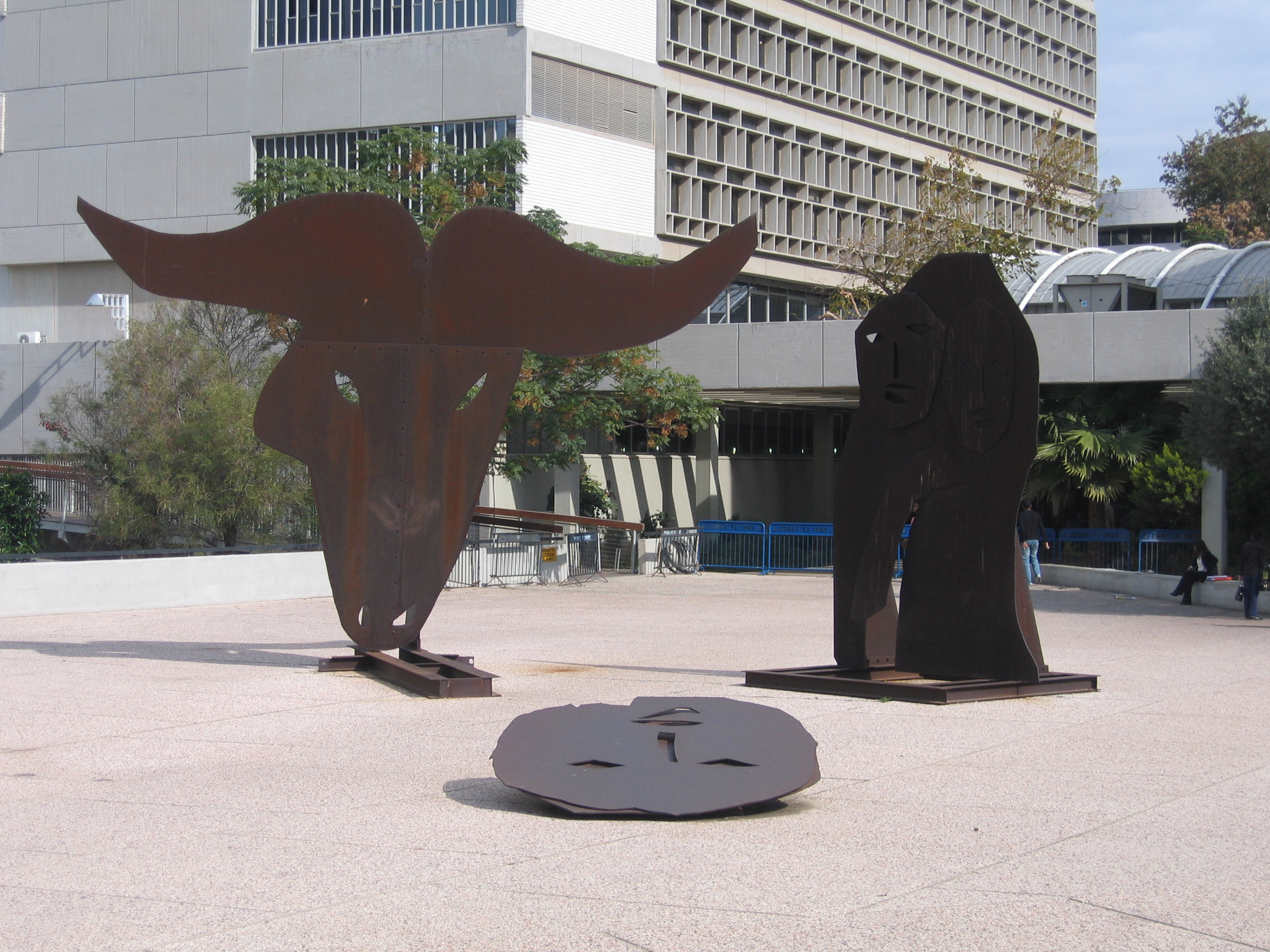 The Binding of Yitzhak (1985-1982) by Menashe Kadishman. Outside the Tel Aviv Museum of Art, Israel. (Deer 350x700x800 cm; Yitzhak 240x220; the Weeping womens 250x500x300)